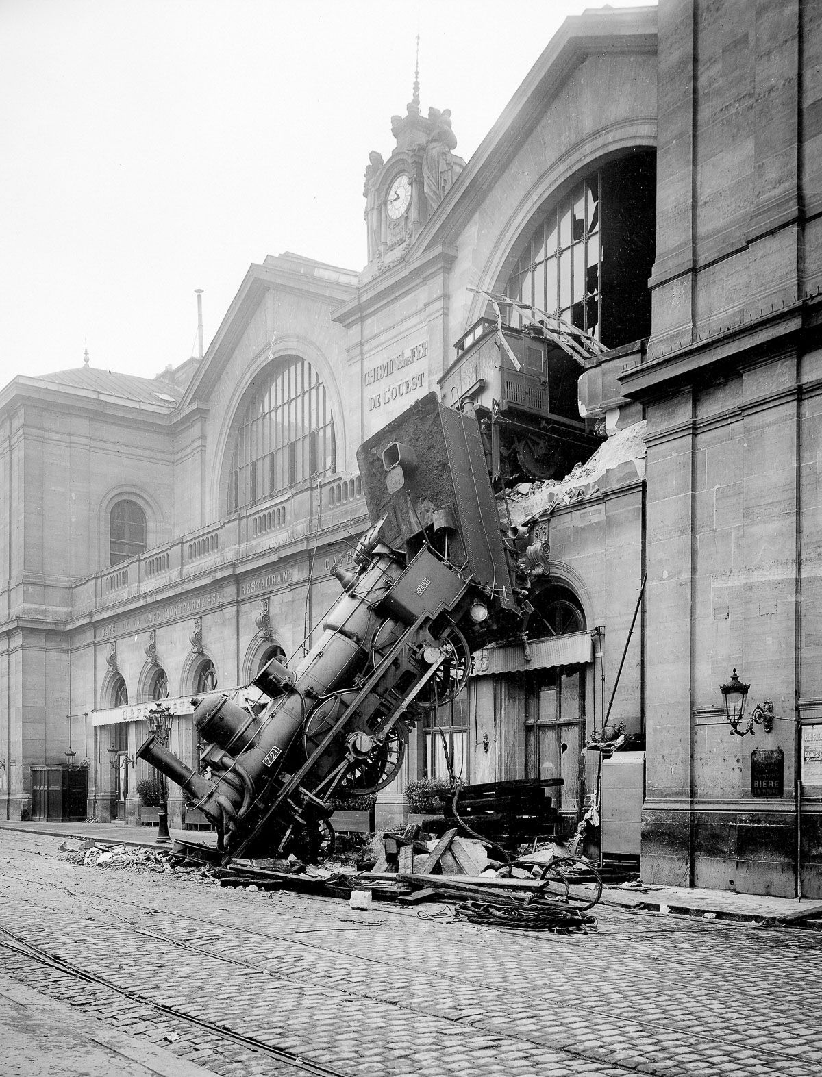 Train wreck at Montparnasse Station, at Place de Rennes side (now Place du 18 Juin 1940), Paris, France, 1895.